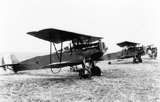 Huff-Daland AT-1 trainers of the United States Army Air Service.